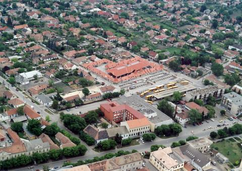 Monor, Hungary, aerialphotography